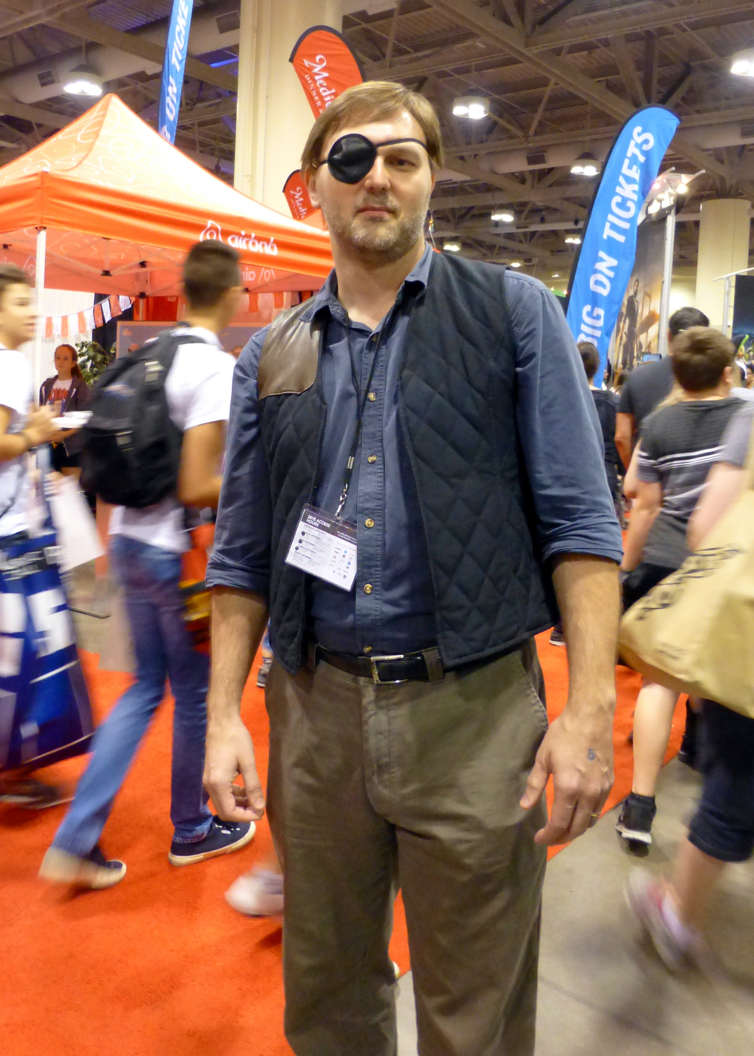 Governor Cosplay at Fan Expo Canada in 2015.